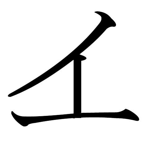 This image is a mix of (イ) and (エ), and was made by me with Photoshop. Reference: This image in Iroha and Aiueo